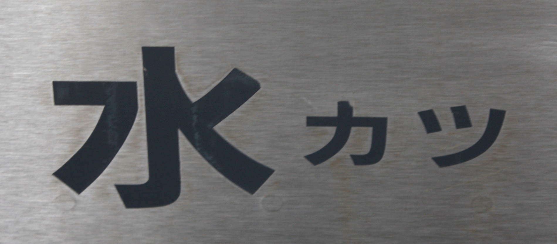 Symbol of JR East Katsuta Rolling Stock Center, marked on its rolling stock